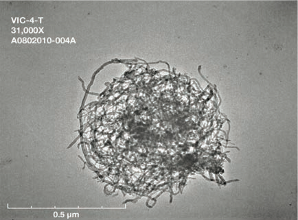 Figure 3. Aerosol droplets containing nanomaterials ejected from vial during sonication